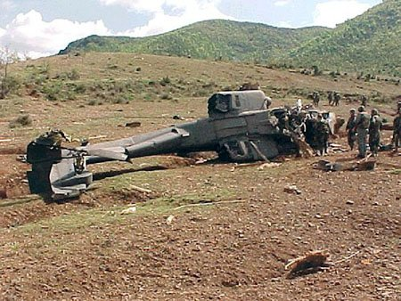 Apache AH-64A helicopter crashed in Albanian mountains during a training excercise, May 1999